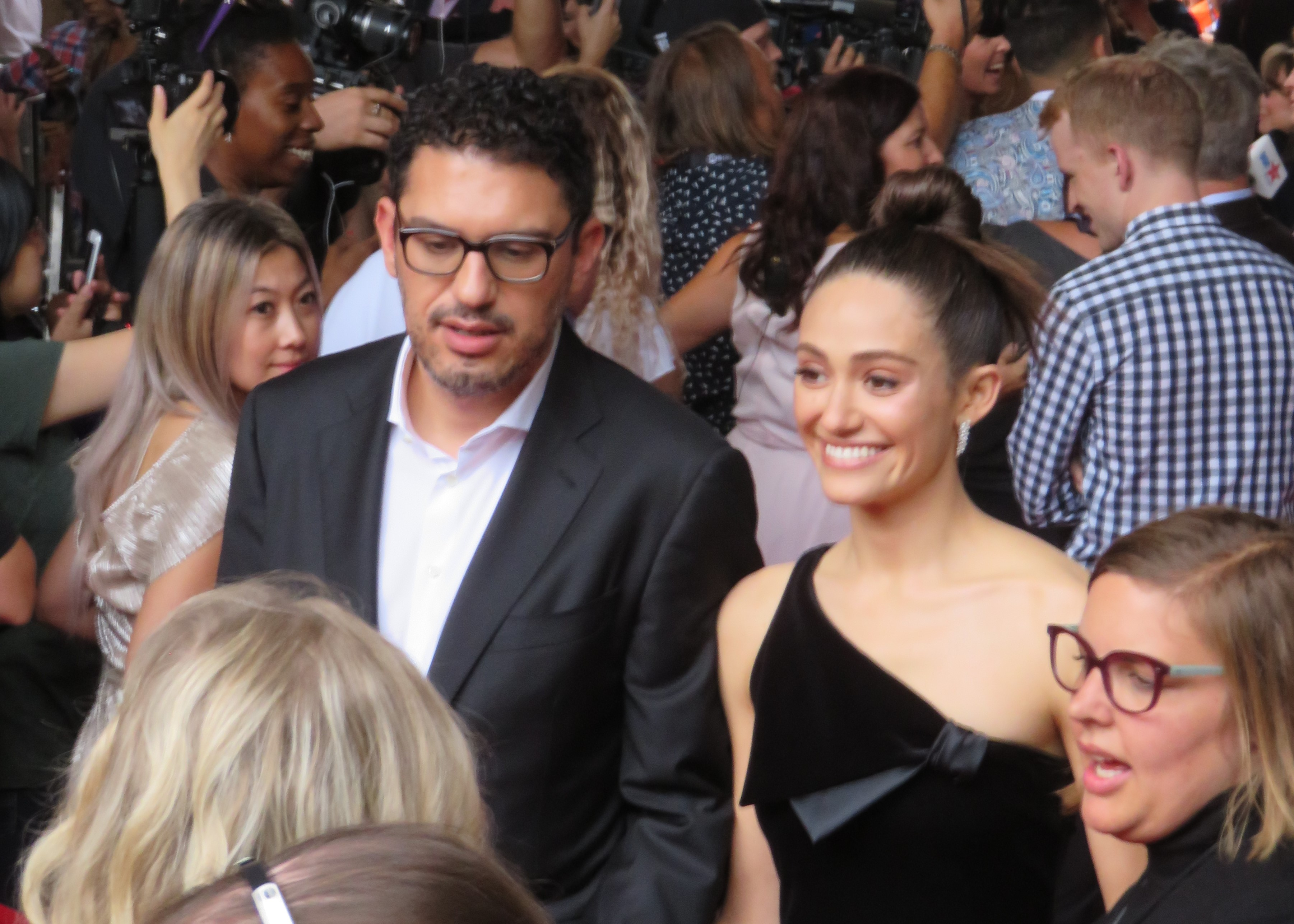 Sam Esmail and Emmy Rossum at the premiere of Homecoming, 2018 Toronto Film Festival.